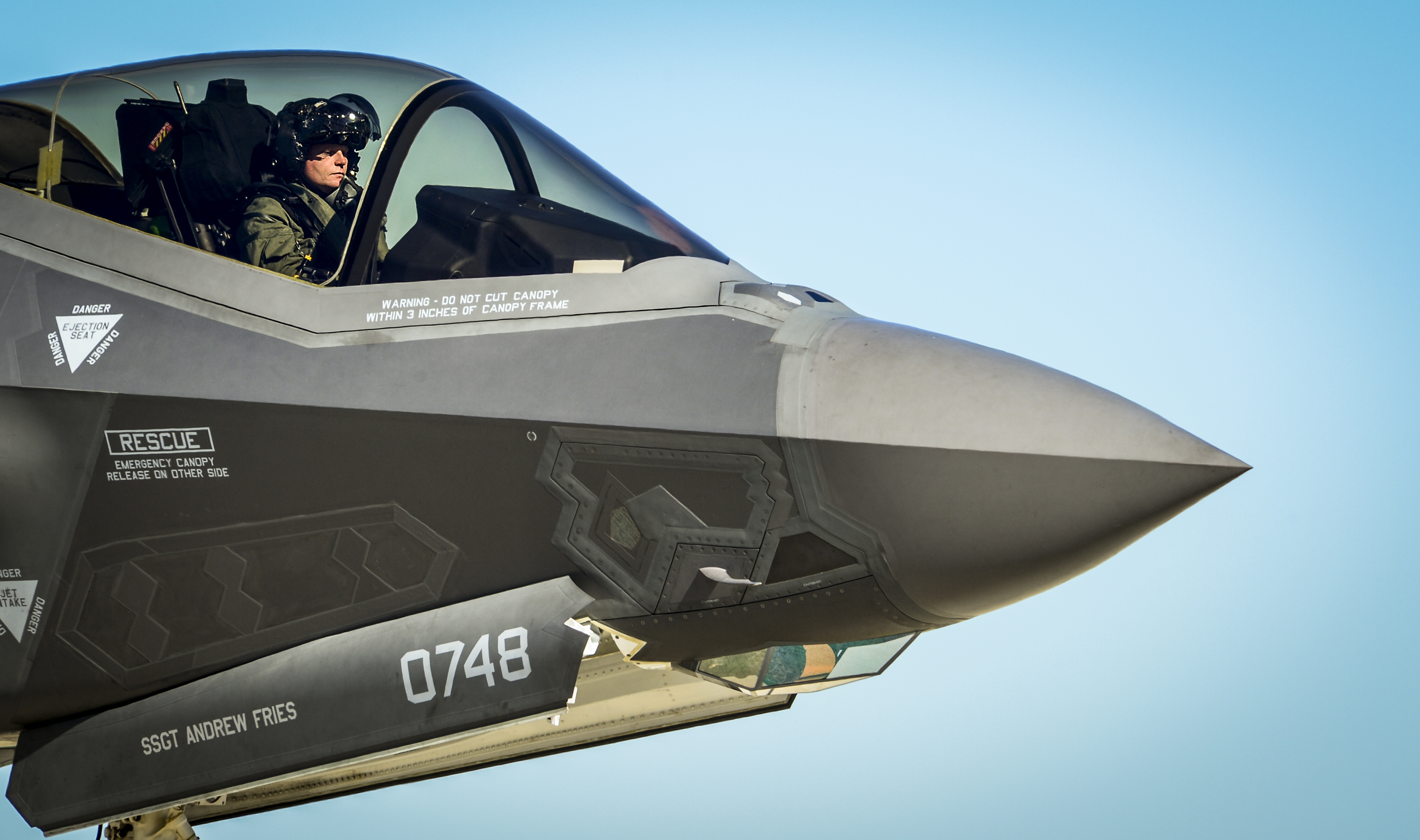 A U.S. Air Force pilot waits in the cockpit of an F-35 Lightning II during a hot refuel on Eglin Air Force Base, Fla., Dec. 12, 2013. The F-35 is a single seat, fifth generation, multi-role fighter in development to perform ground-attack, reconnaissance and air defense missions. (U.S. Air Force photo/Senior Airman Christopher Callaway)